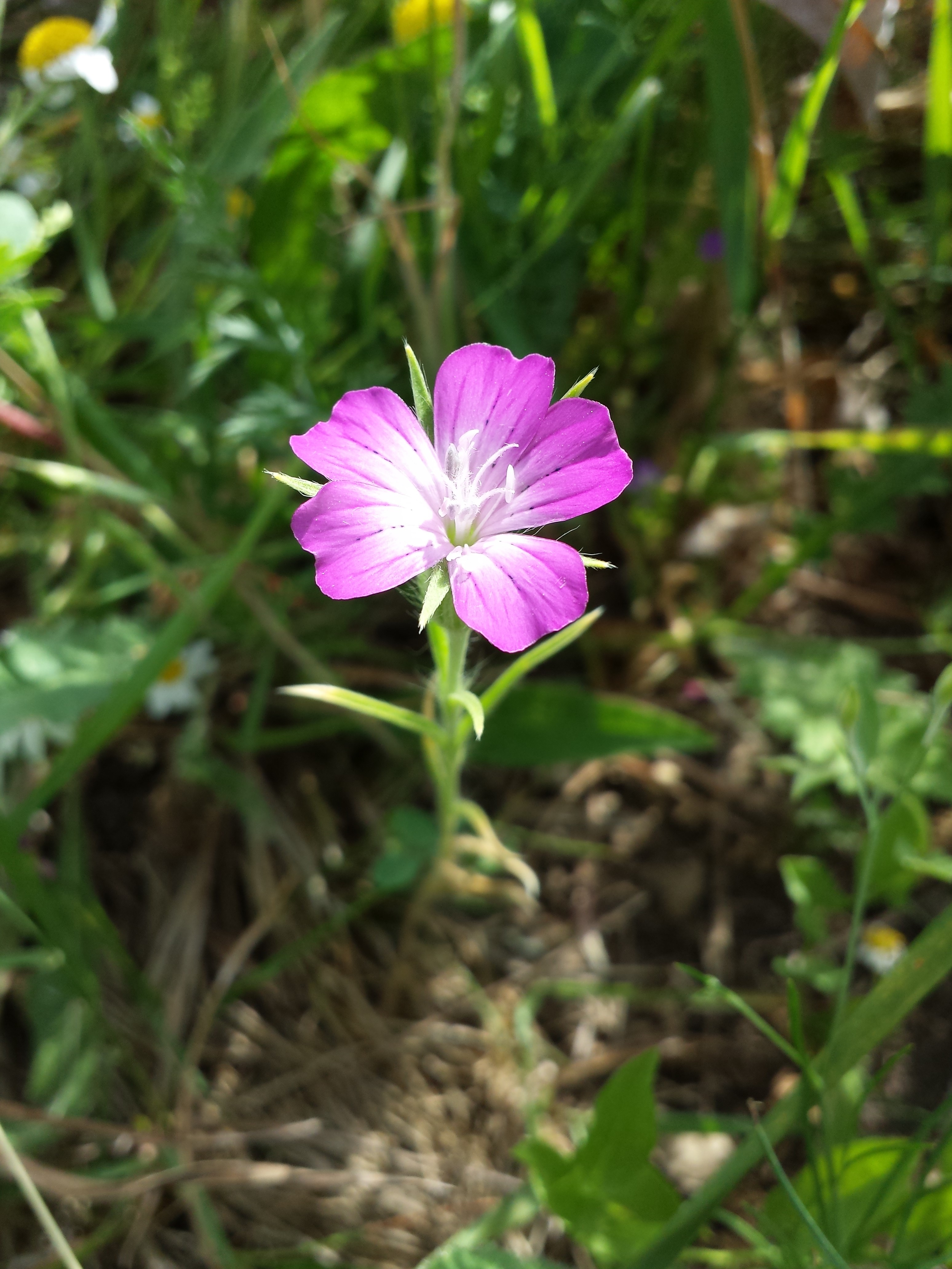 Habitus Taxonym: Agrostemma githago ss Fischer et al. EfÖLS 2008 ISBN 978-3-85474-187-9 Location: Schulberg, Leiser Berge, district Korneuburg, Lower Austria - ca. 427 m a.s.l. Habitat: fallow land